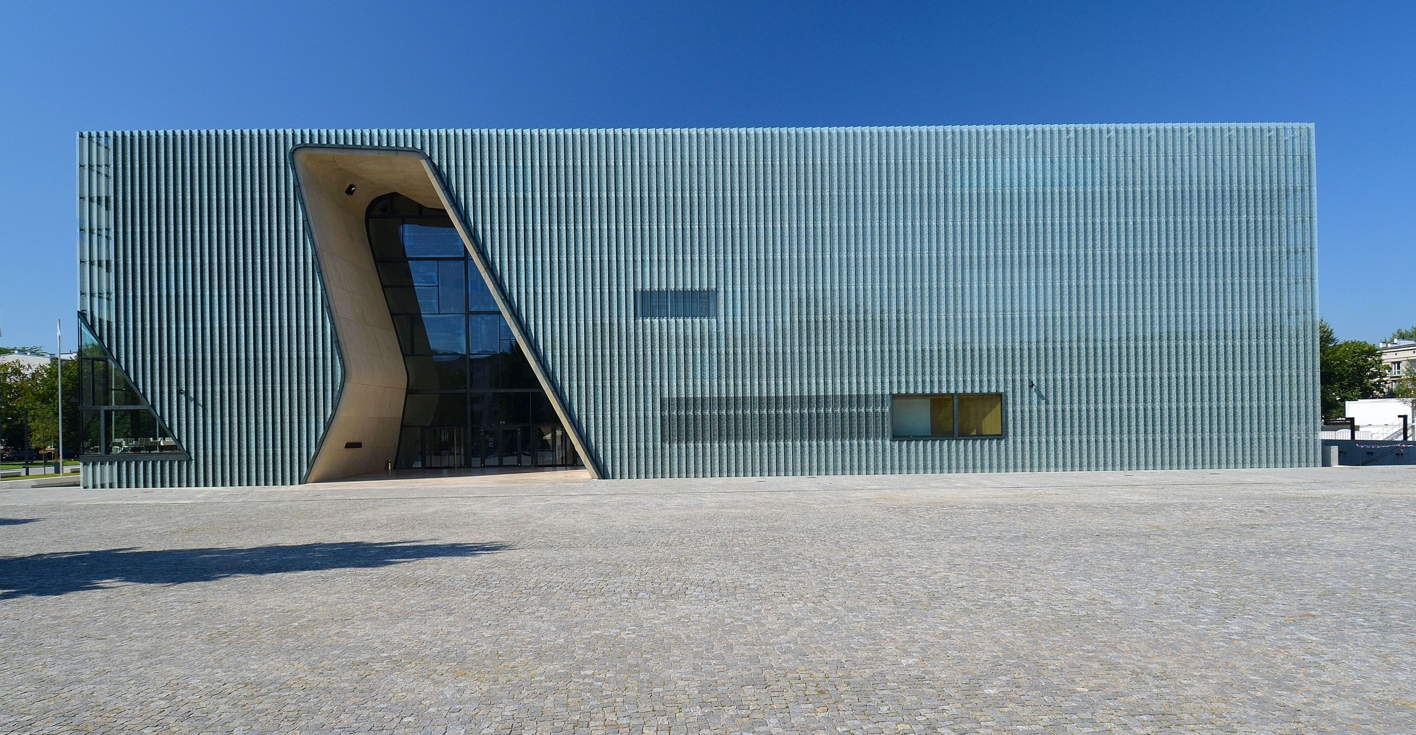 Museum of the History of Polish Jews in Warsaw